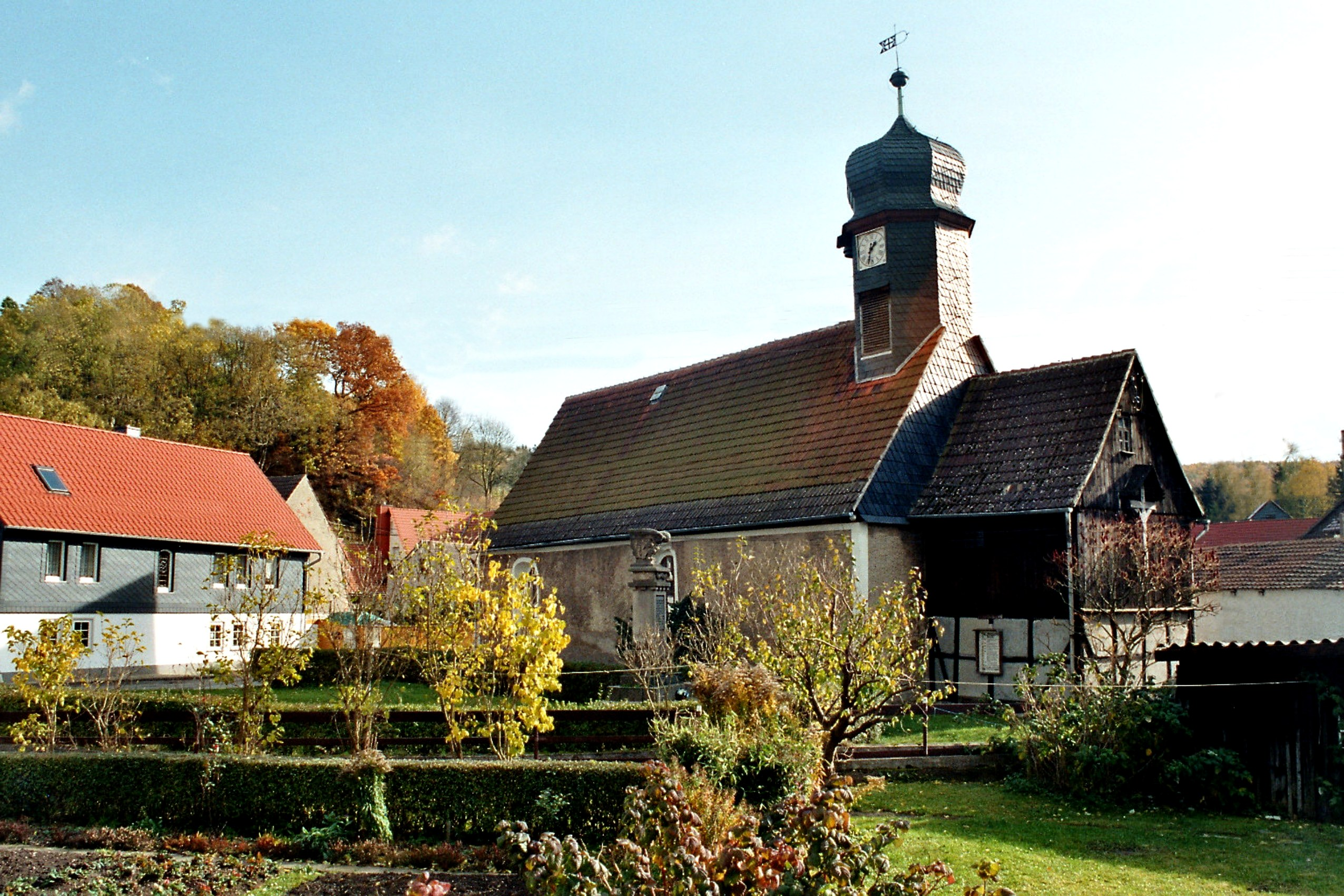 Wolfsberg (Sangerhausen), the village church This is a photograph of an architectural monument. 84379